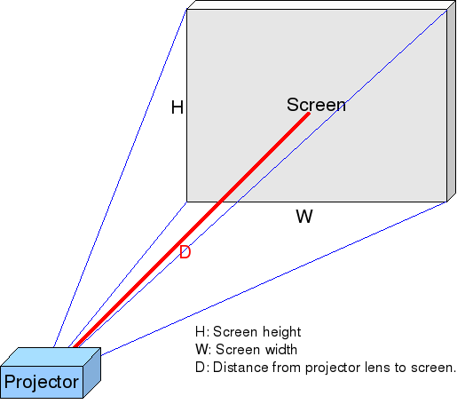 A line diagram illustrating the geometry of a projector and image screen.